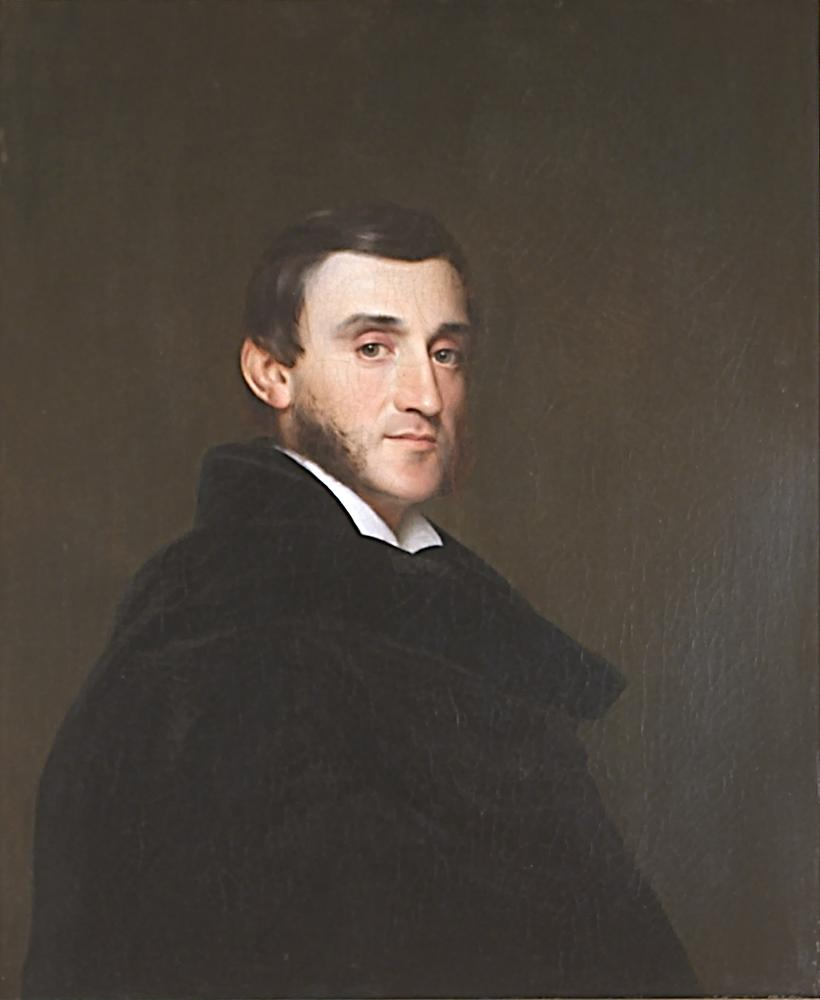 Nicholas Brown III (October 2, 1792 – March 2, 1859), Oil on canvas